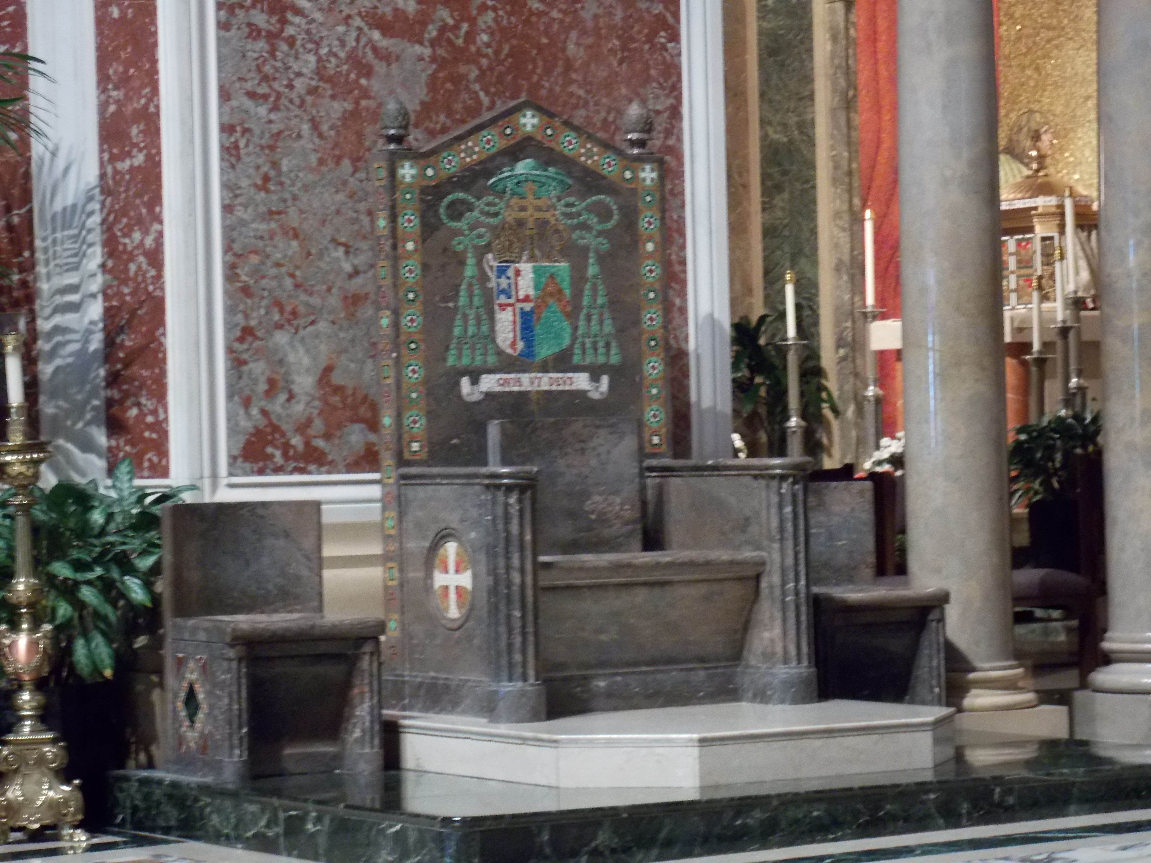 The cathedra in the Cathedral of St. Matthew the Apostle in Washington, D.C. The coat of arms of Archbishop Michael Curley, the first Archbishop of Baltimore-Washington are on the back of the chair. The cathedral is listed on the National Register of Historic Places.